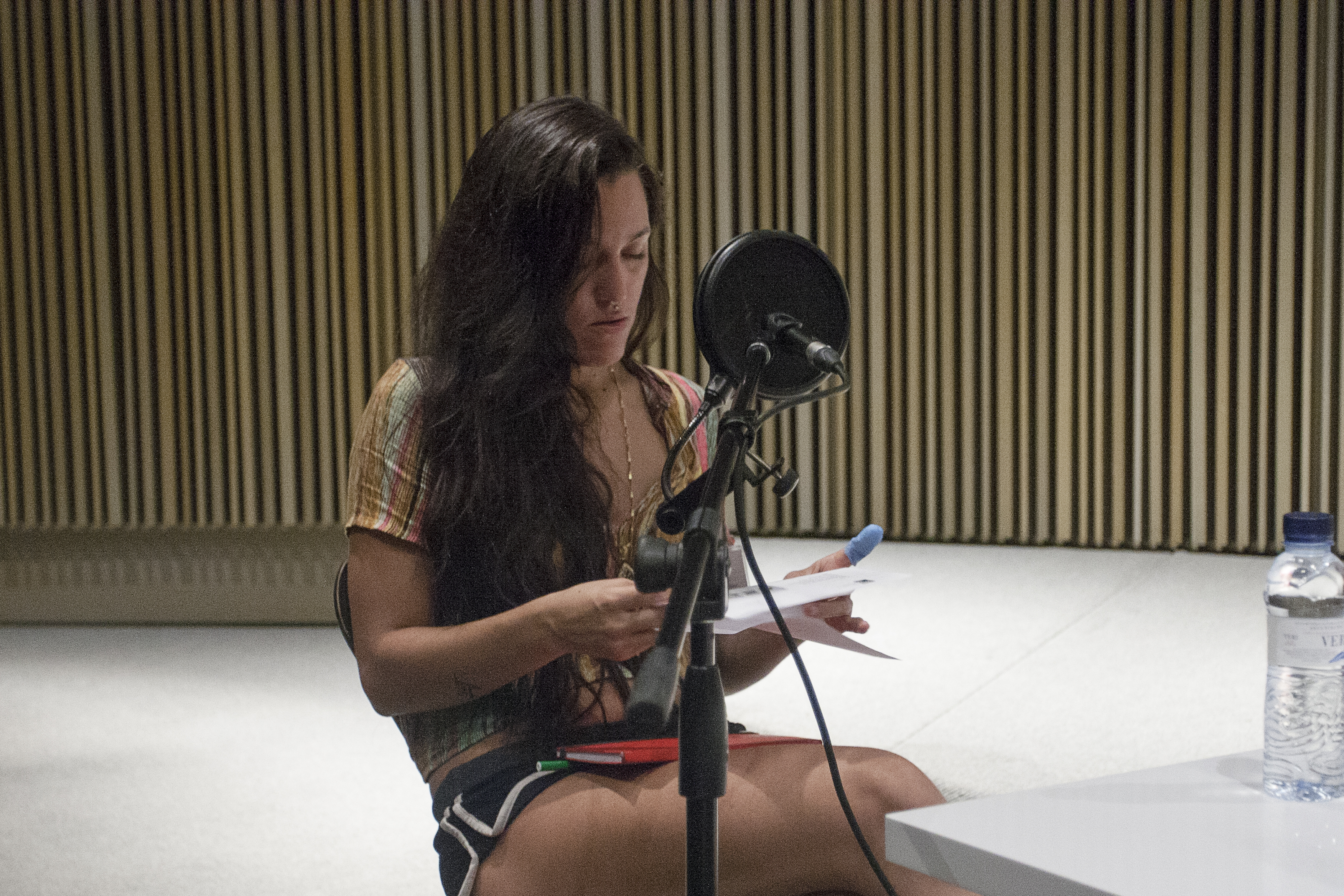 rwm.macba.cat/ Foto: Gemma Planell / MACBA, 2015